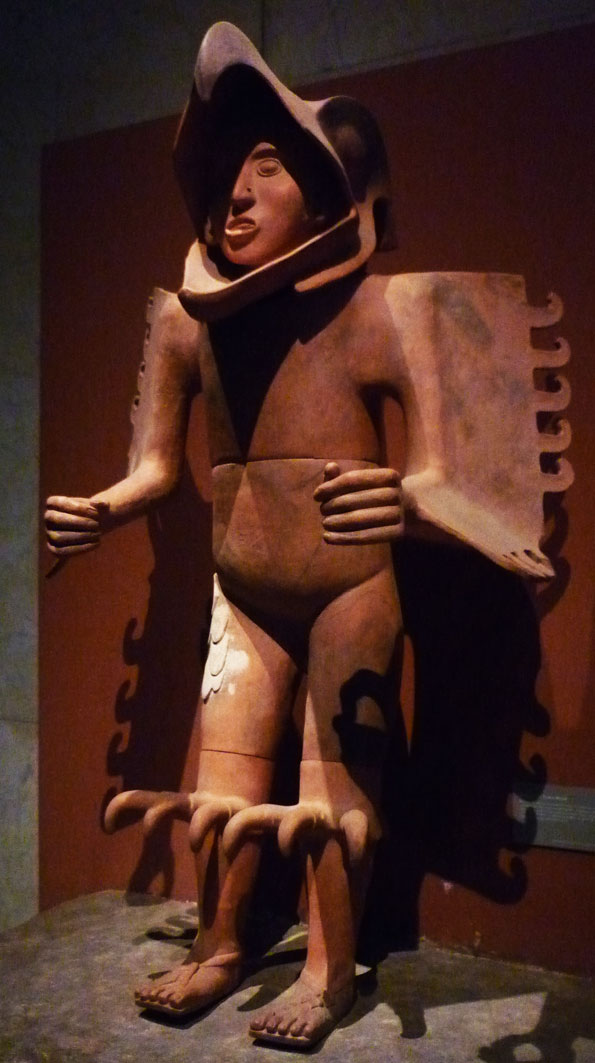 Large ceramic statue of an Aztec eagle warrior exhibited at the Museo Nacional de Antropología e Historia, México